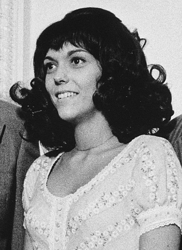 Karen Carpenter in the White House, August 1, 1972